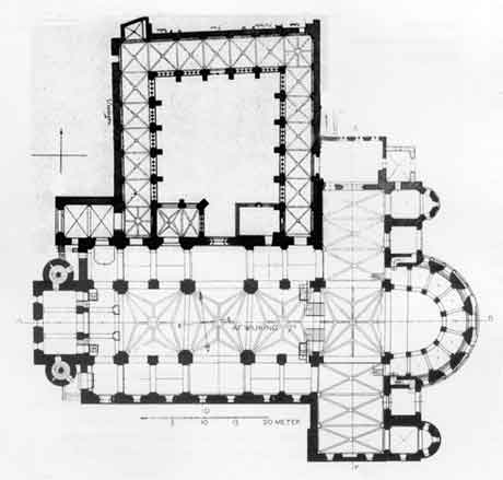 Basilica of Our Lady, Maastricht, The Netherlands. Church plan.